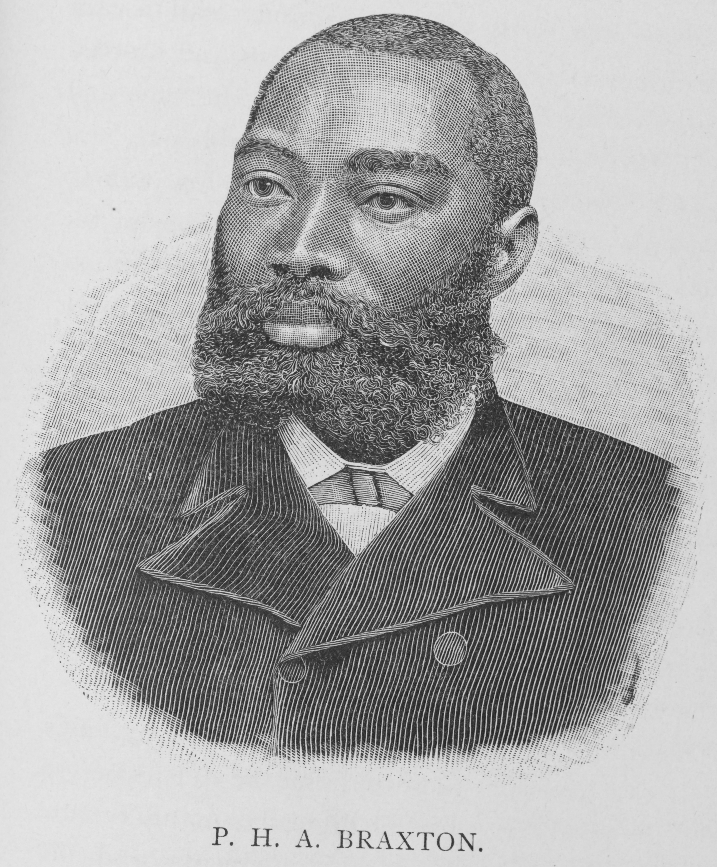 Braxton in 1887